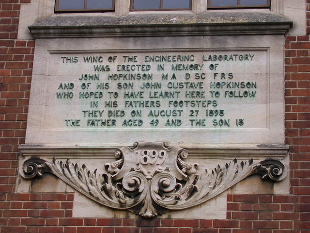 Memorial to John Hopkinson, Free School Lane Memorial to the pioneering electrical engineer, who died with 3 of his children in a mountaineering accident. Biography